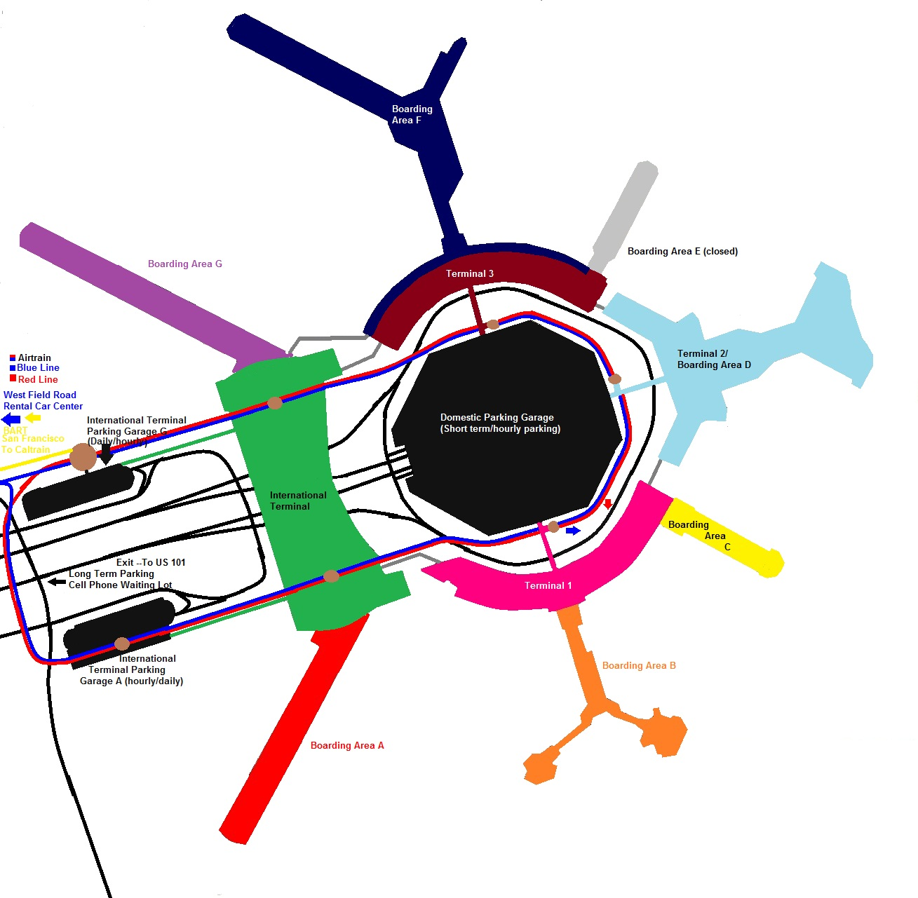 A terminal map of SFO. Created by me with help from Google Earth and SFO's terminal maps